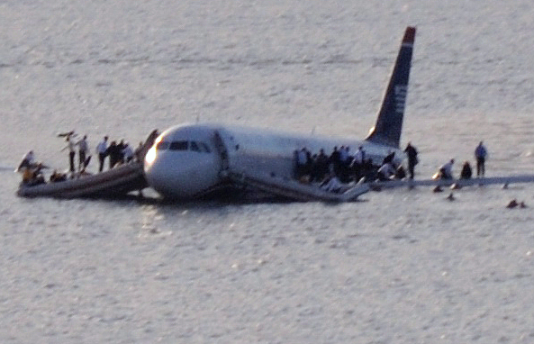 Photo of US Airways Flight 1549 after crashing into the Hudson River in New York City, United States.